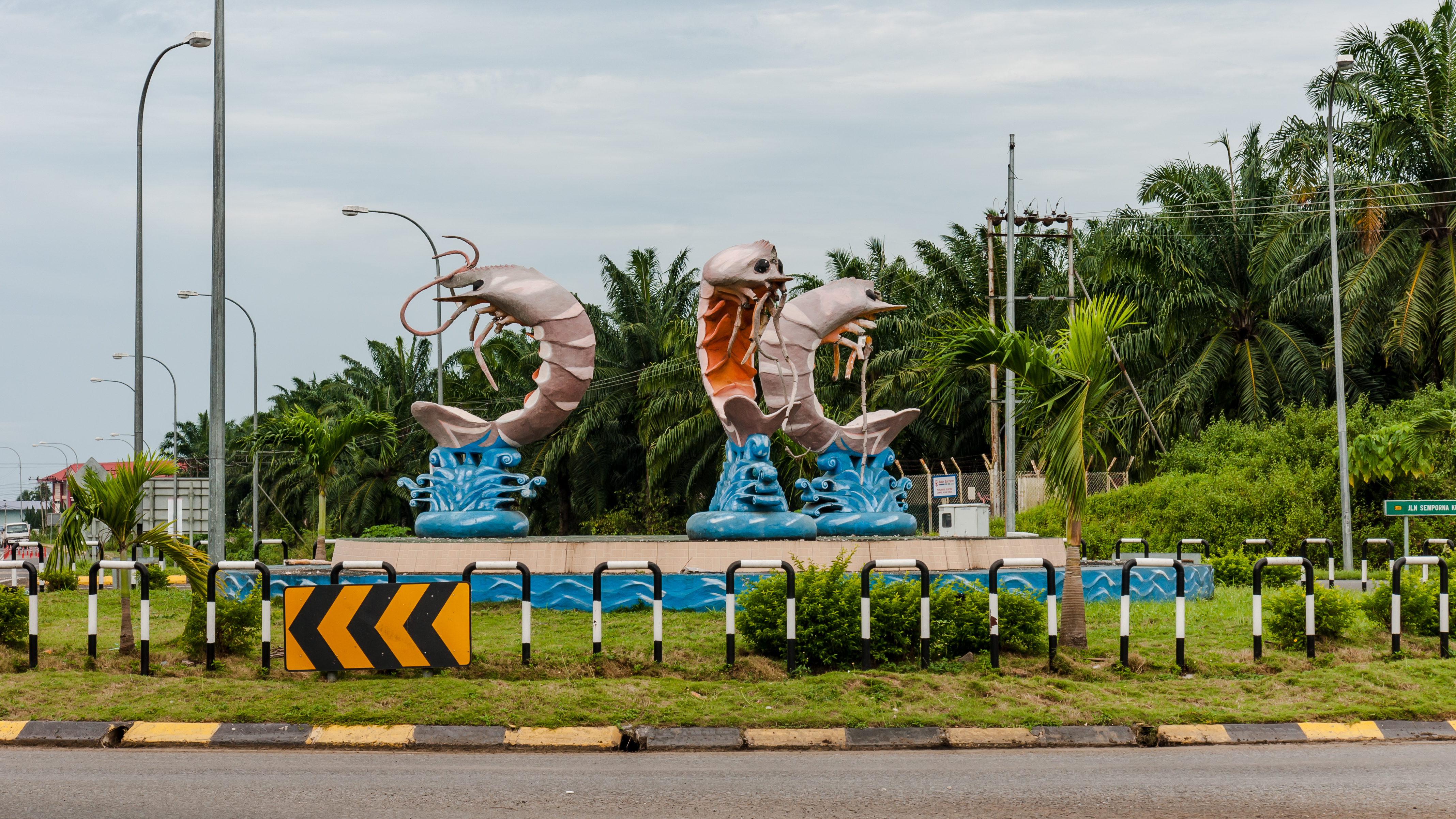 Kunak, Sabah: Roundabout when entering the town